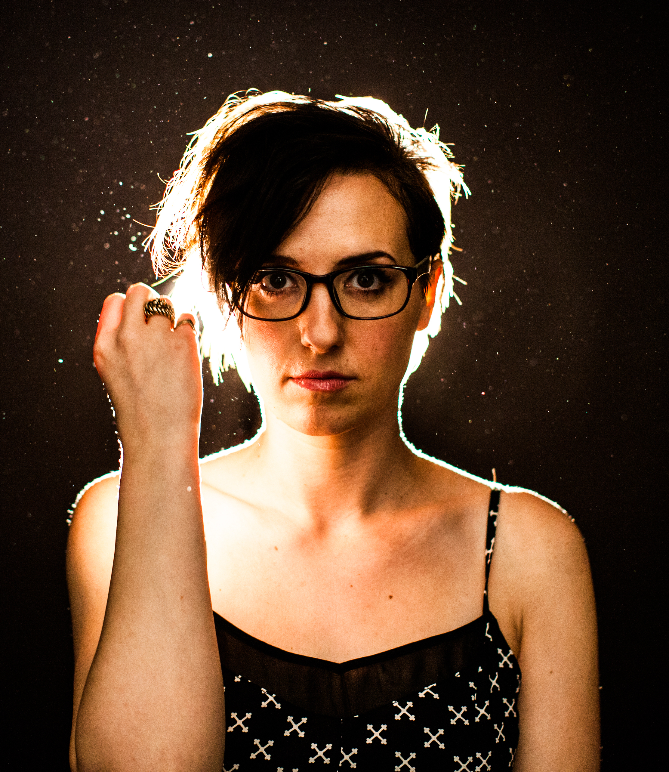 Audrey Assad (cropped)